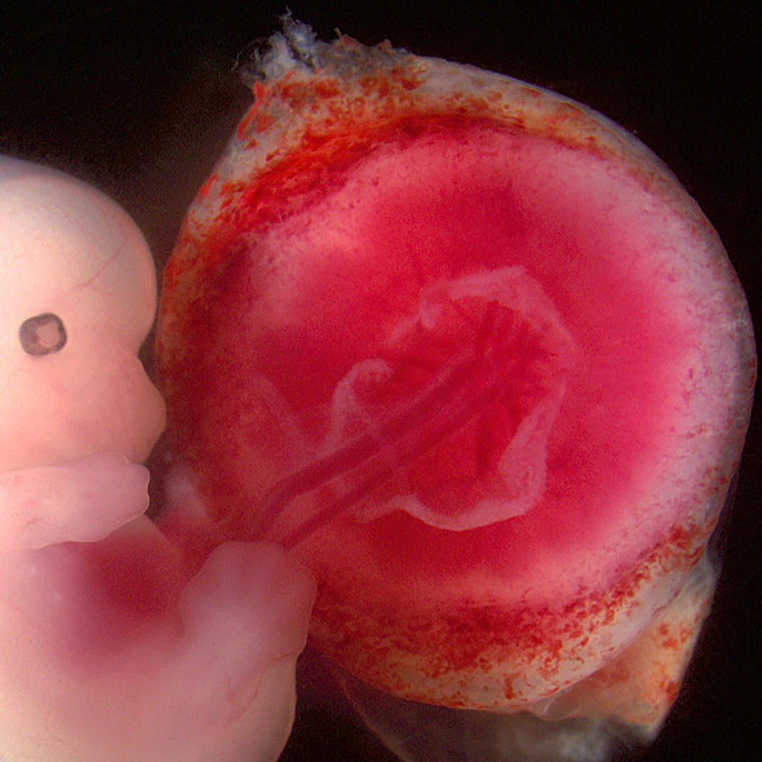 Fetus and placenta.